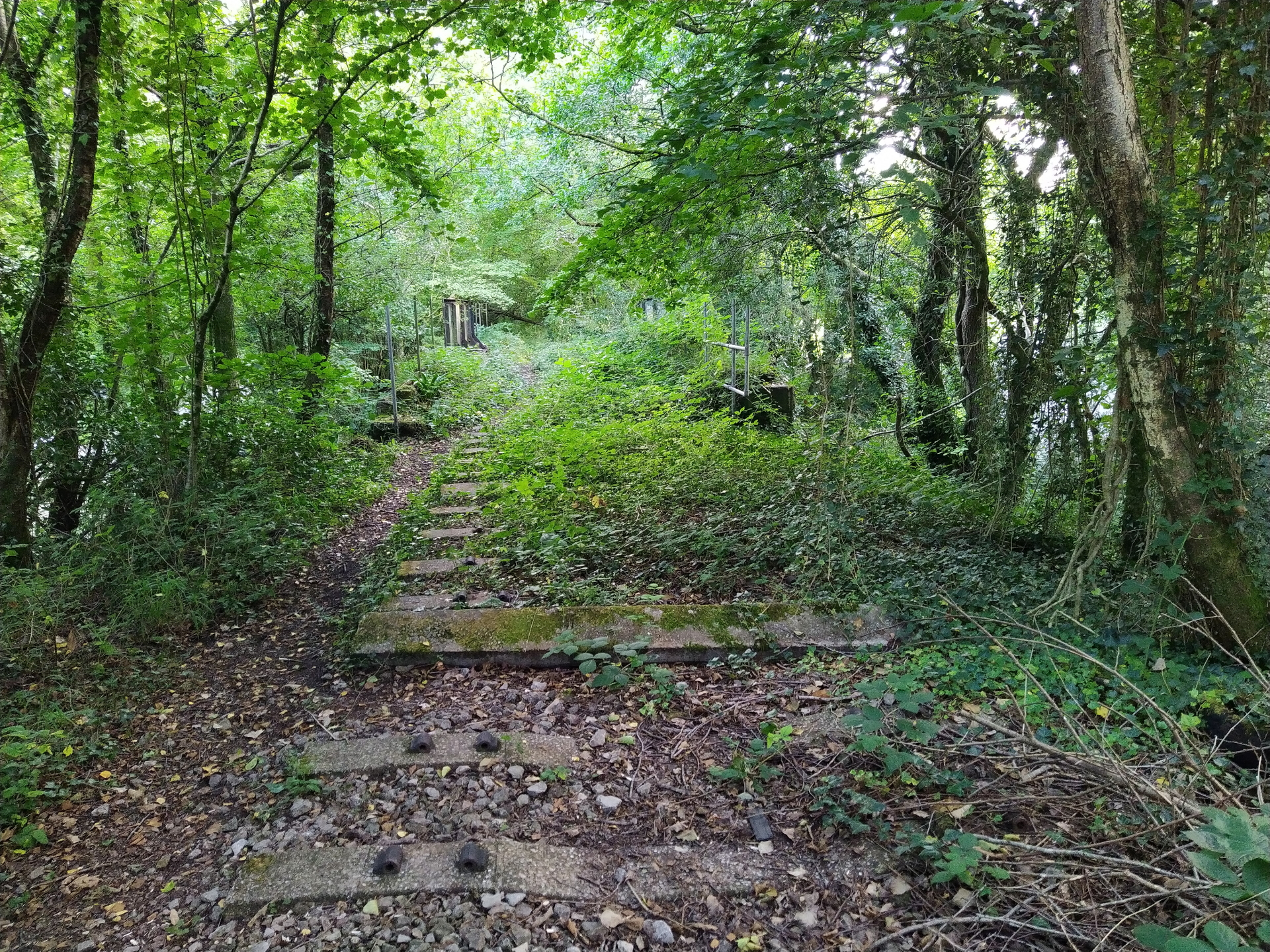 This is the site of Beddau Halt - a railway halt on the Llantrisant and Taff Vale Railway. This picture of looking west towards the railway bridge. The halt would have been after the bridge. Some railway sleeper still exist from the Llantrisant-Cwm Coking Works line that was closed in 1982